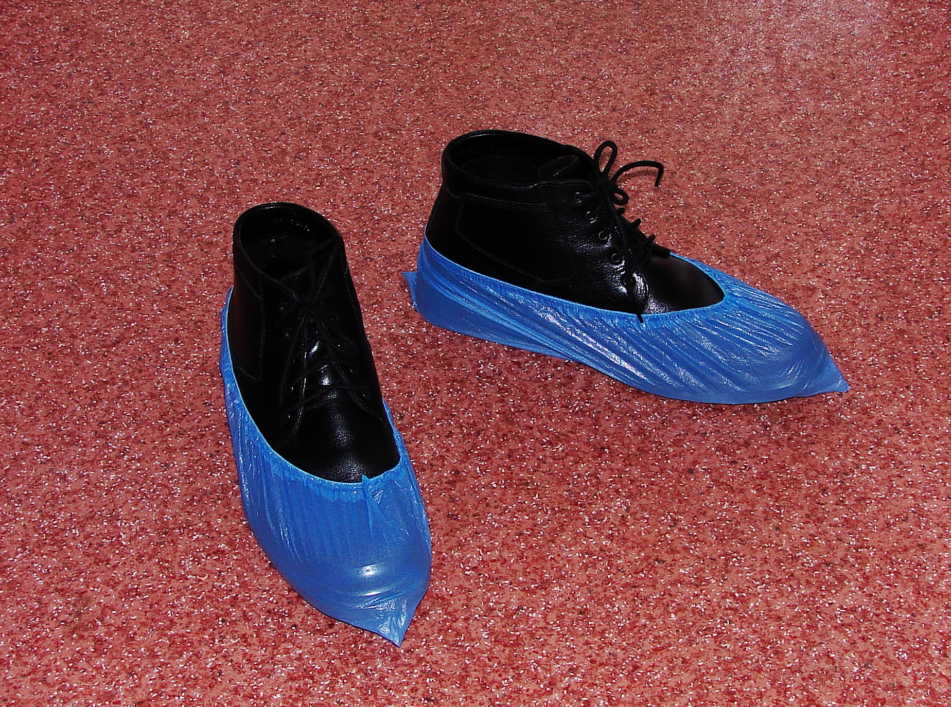 Shoes in shoe covers